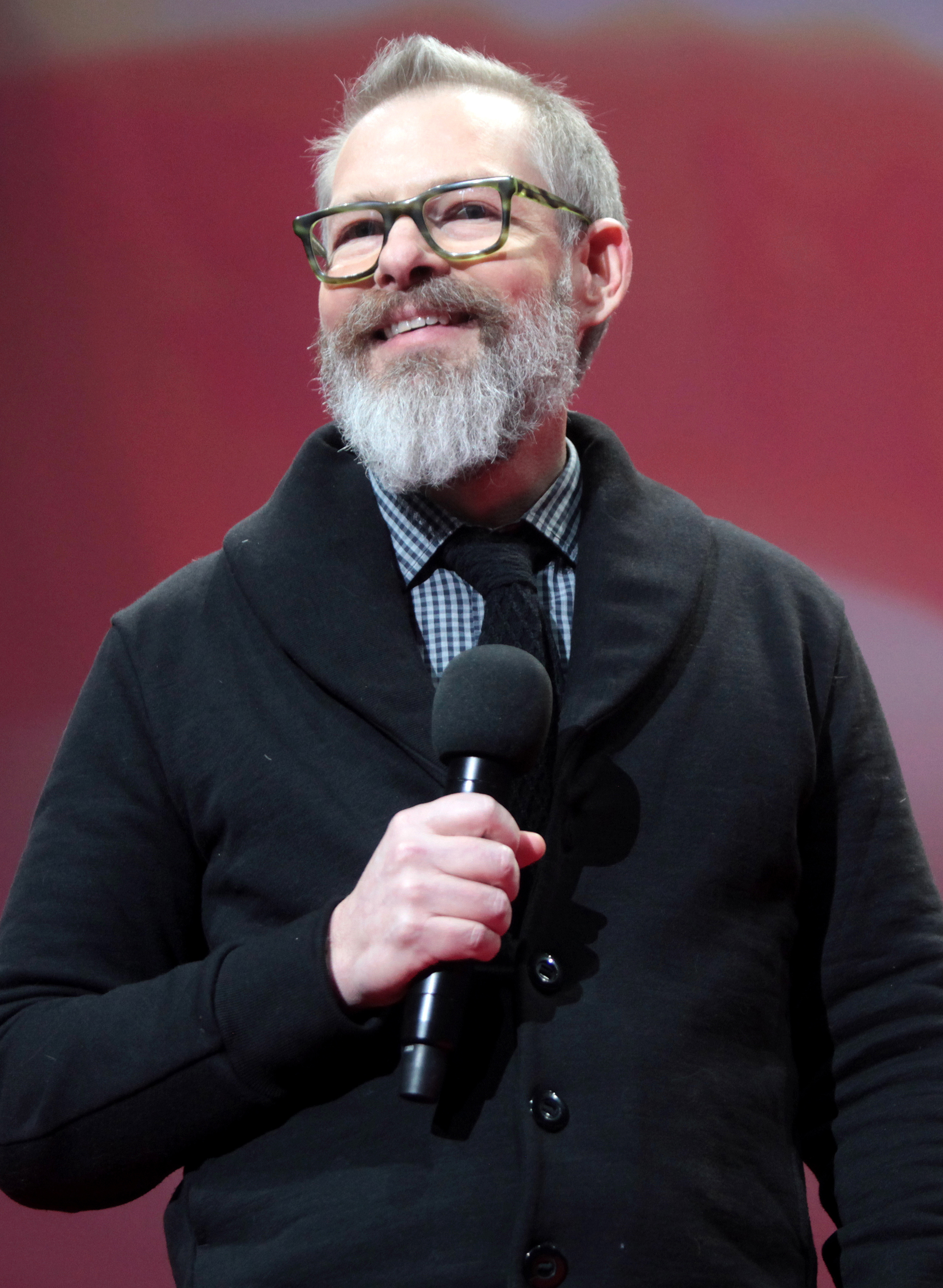 Matt Kibbe speaking at an event in Greenville, South Carolina.